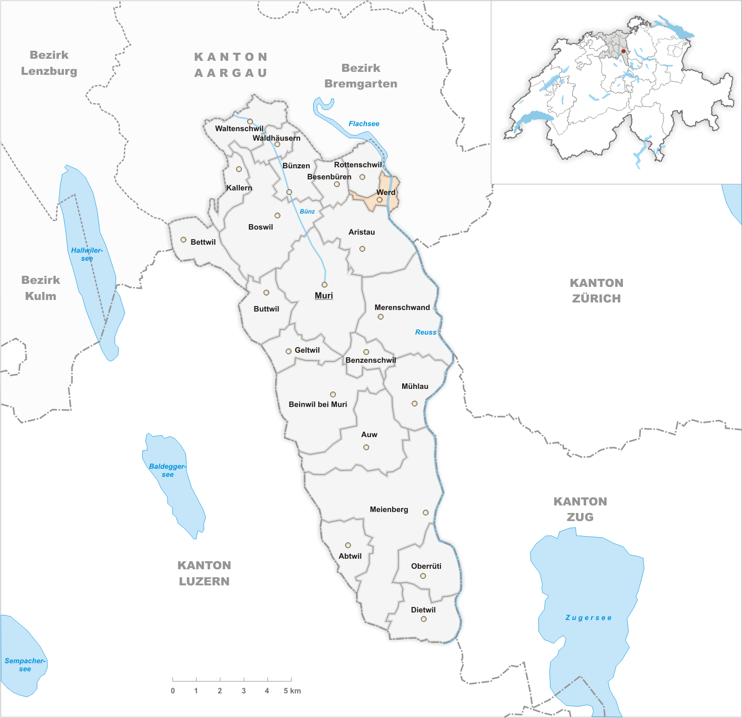 Municipality Werd